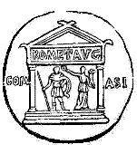 738 woodcuts illustrating the work A Dictionary of Roman Coins, Republican and Imperial (1889). To identify a coin please look at the filename to identify a page number, and check the Dictionary on numiswiki